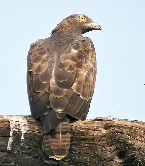 Oriental Honey Buzzard Pernis ptilorhyncus at Bharatpur, Rajasthan, India.